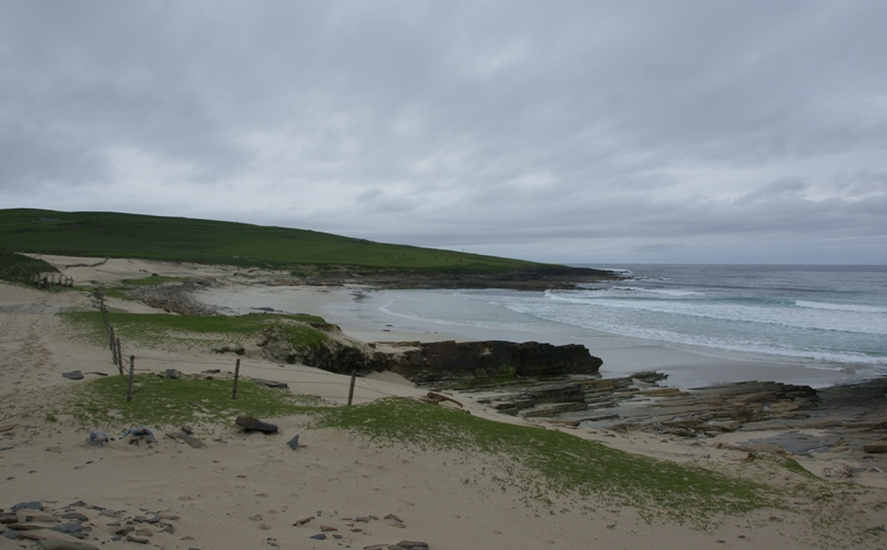 Links of Noltland, Westray, Orkney, Scotland